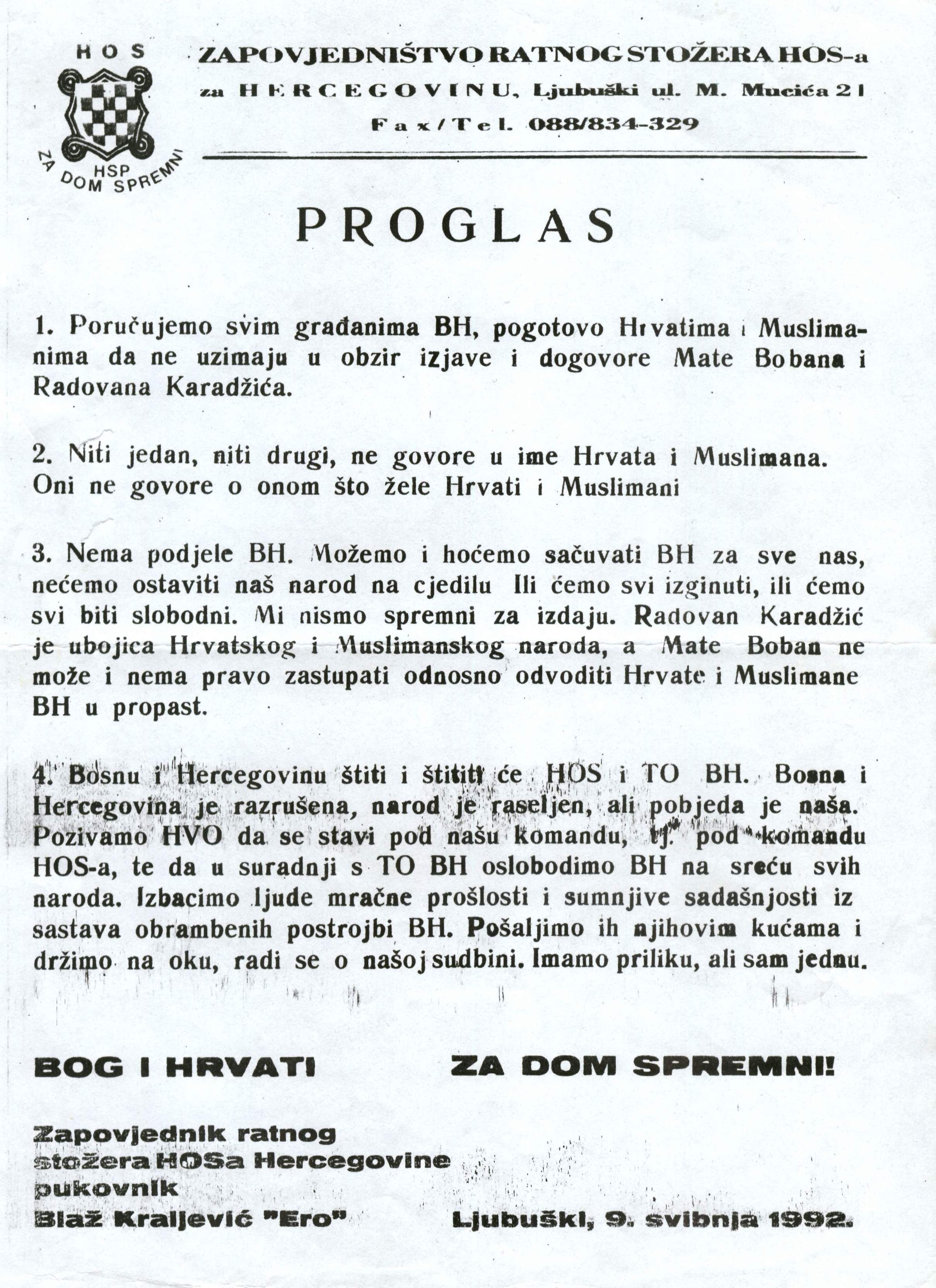 The proclamation of Blaž Kraljević against the division of Bosnia and Herzegovina by Mate Boban and Radovan Karadžić